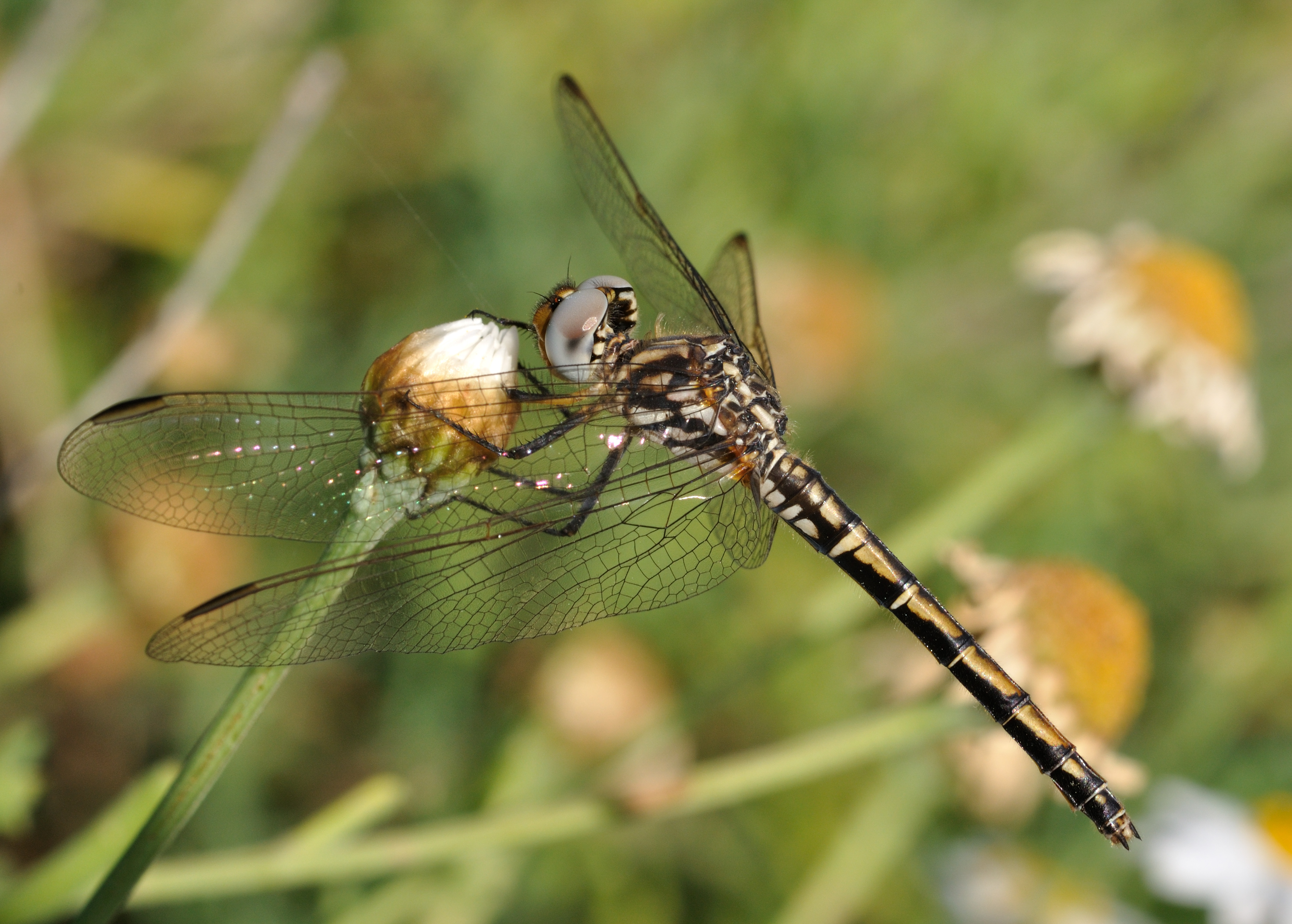 Female Red-veined Dropwing (Trithemis arteriosa) in Puerto de la Cruz, Tenerife, Spain.